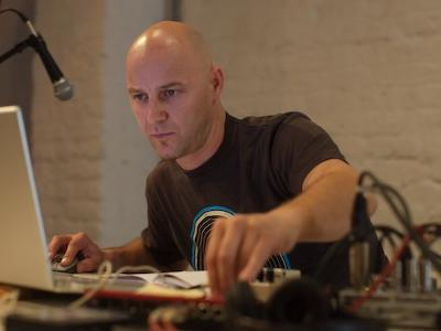 Digital music composer Bernhard Loibner. March 10, 2007 in Cape Town Photo (c) Chris Malcolm